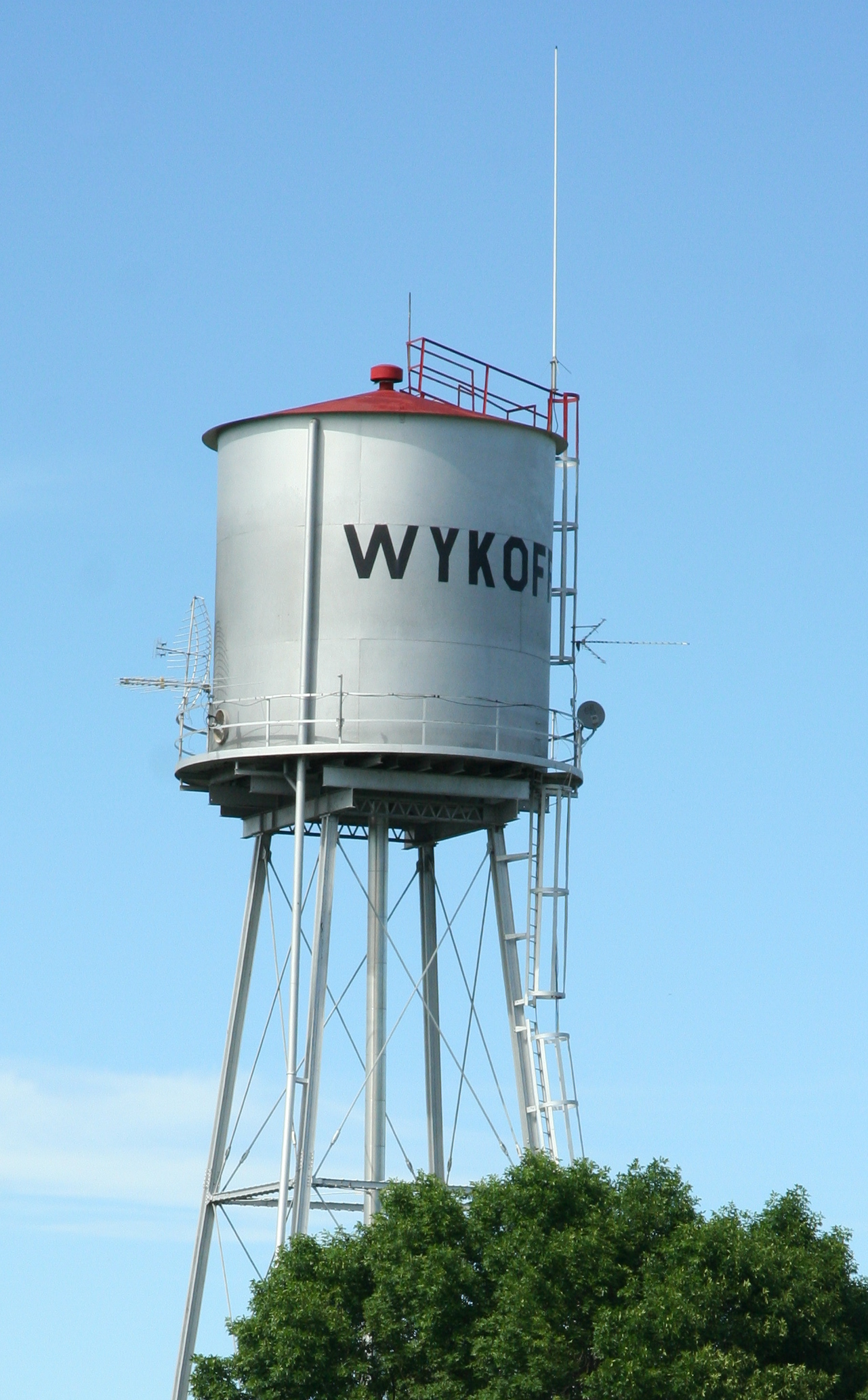 The public water tower in Wykoff, Minnesota seen from downtown on Gold Street